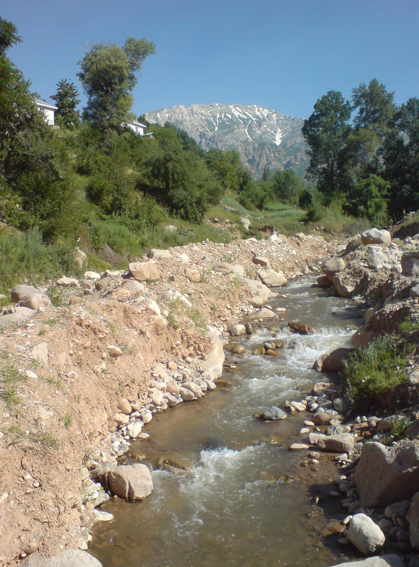 Chimgansay river (in the middle reaches) and Greater Cimgan mountain (in the background)